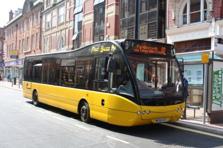 A Fleet Buzz bus in Reading, Berkshire, on route 82 to Farnborough and Fleet. It is an Optare Versa, fleet number 54, registration mark MX58KZC.